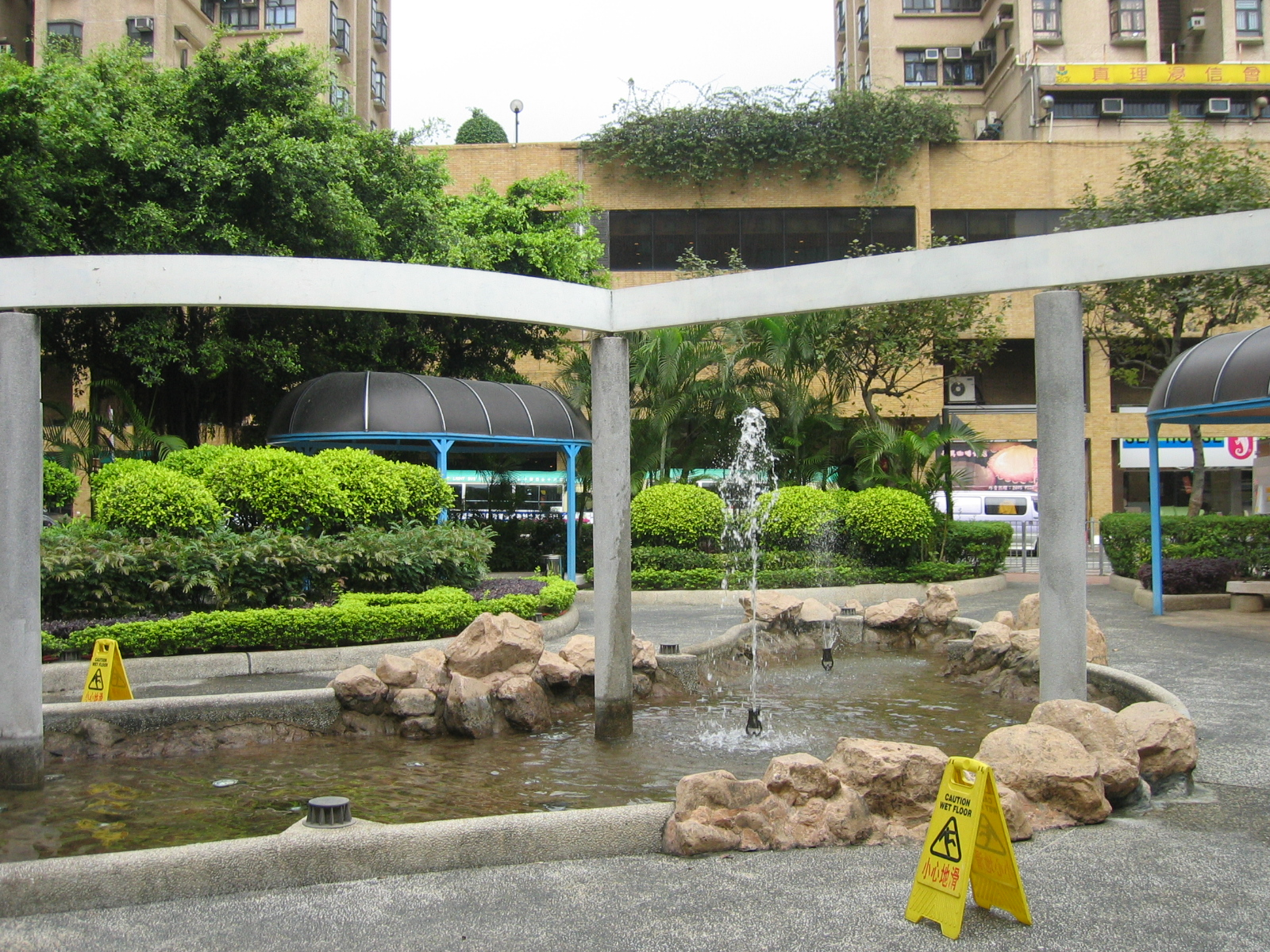 New Town Plaza Phase 3 L1 Public Garden